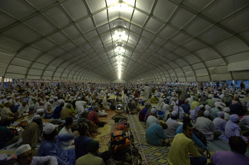 Event : Malaysia Jamaat Tablighee Ijtima' ( World ) Location : Sepang Selangor, Malaysia Date : 9 ~ 12 July 2009 Additional Information : Attended by more than 200,000 thousand Muslims from around the world.